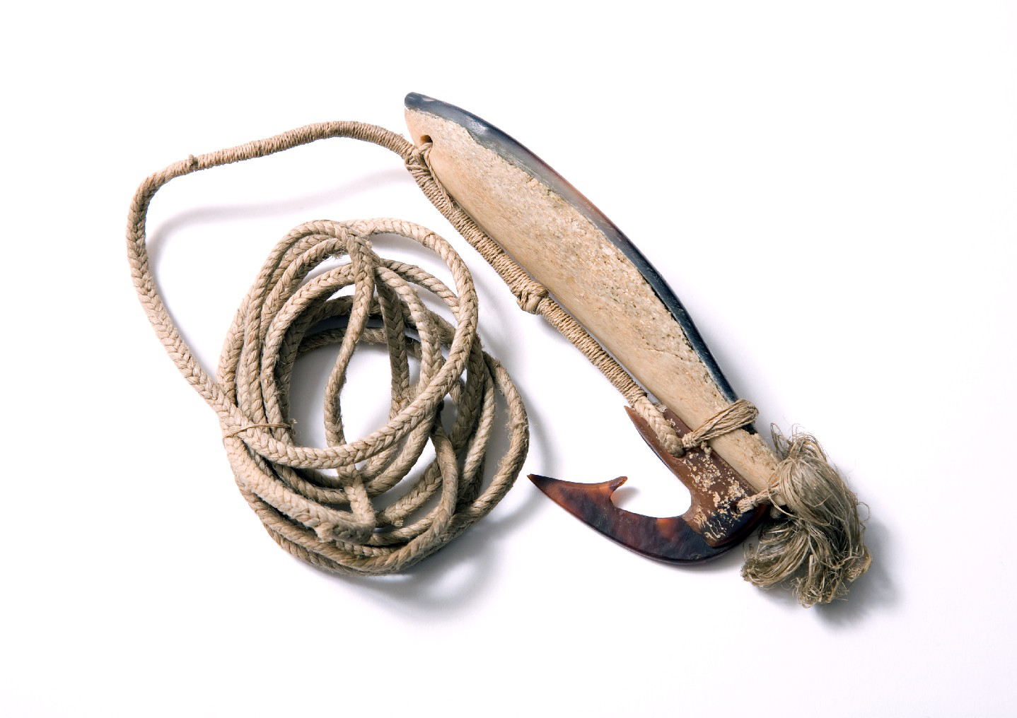 H000128 Bone fish hook. Fish and marine animals (including whales, whose capture is now prohibited) have traditionally been an important source of food in Tonga. This hook was possibly collected in Tonga during Captain Cook's second or third voyage to the Pacific. It was part of the Cook Collection exhibited at the Colonial and Indian exhibition in London in1886. The hook was subsequently acquired by the New South Wales Government and donated to the Museum in 1895.